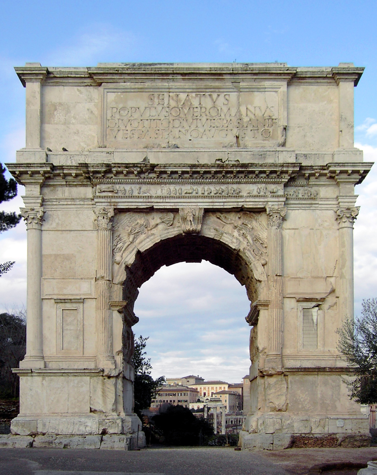 Rome, Arch of Titus.